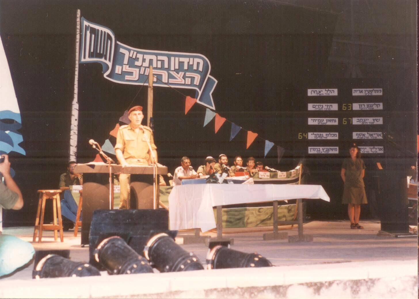 Moshe Levi, chief of staff of the IDF, speaking at the IDF bible quiz 1986